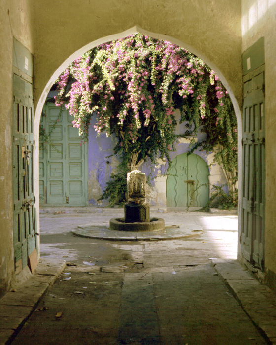 Romantic view of the old souk in Darnah(Derna), Libya